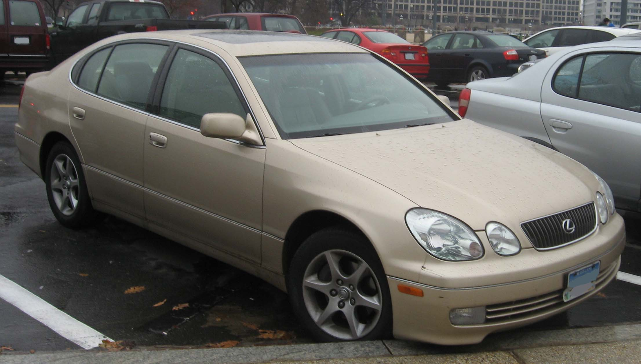 1997-2000 Lexus GS photographed in Washington, D.C., USA.